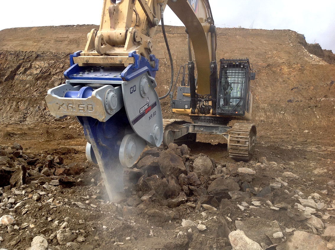 Xcentric Ripper XR50 working on excavation